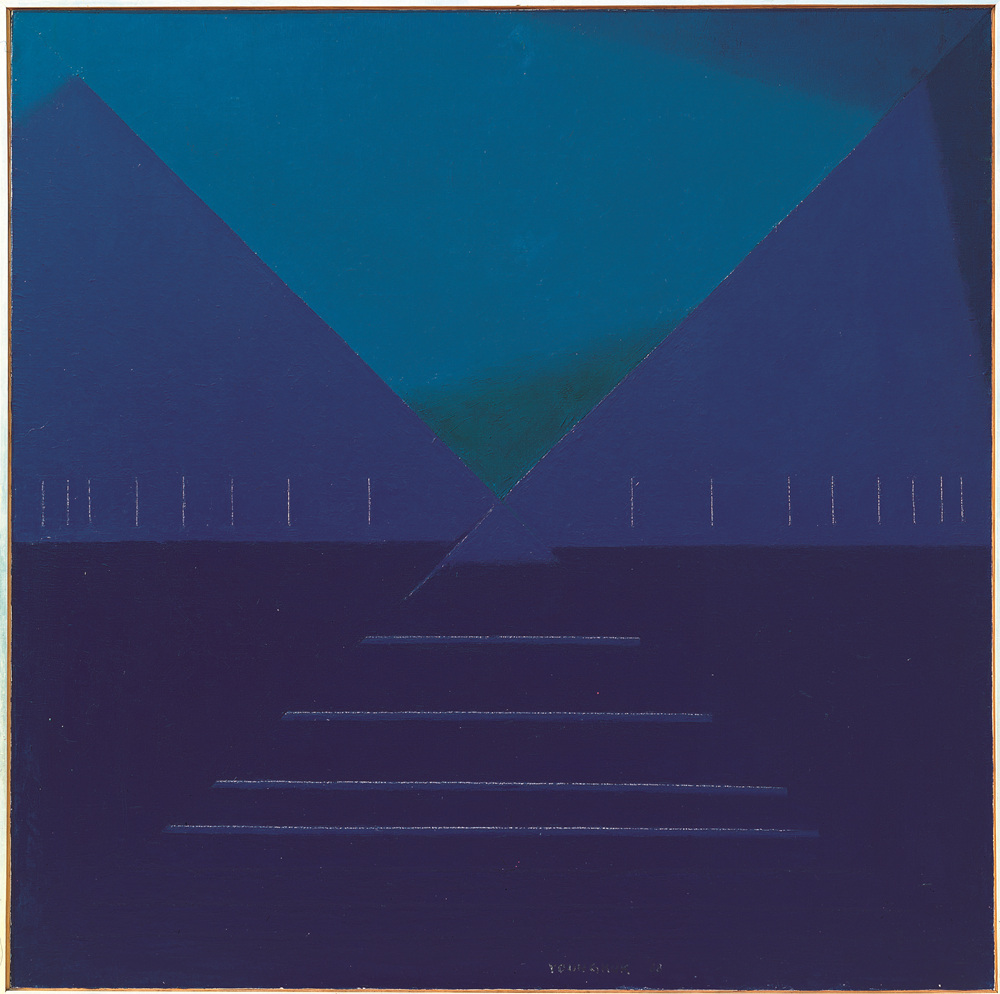 1963, oil on canvas, 130x162cm